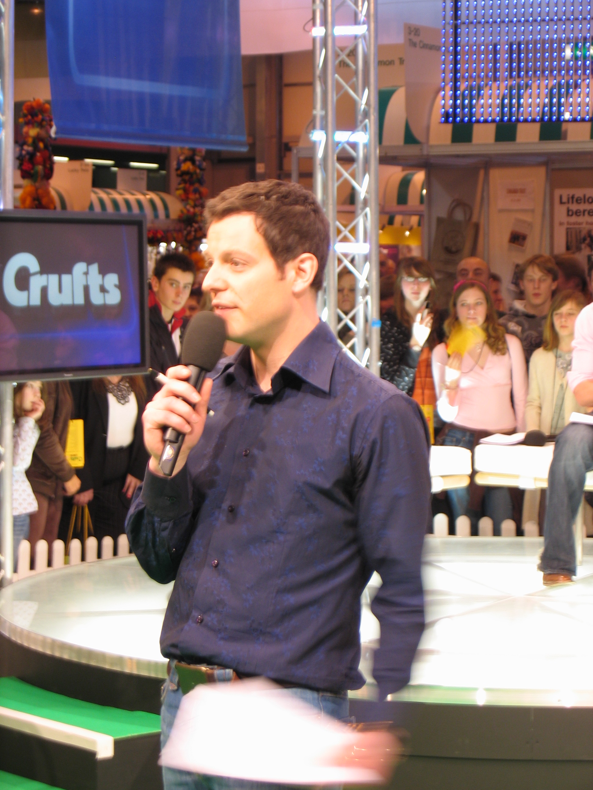 Photos of the BBC's "studio" at Crufts. They have two cameras on the tripods, one boom camera, and one handheld camera. The production seems to be done by Arena HD, however, it's not broadcast in HD, which is odd. You can also see in these shots the presenters - Ben Fogle and Matt Baker...not sure who the others are though. :P